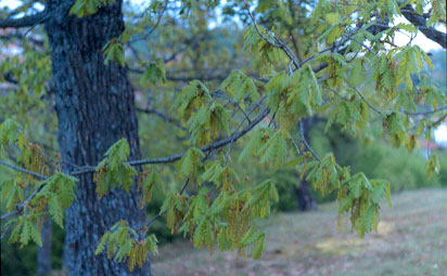 Oak in Greece